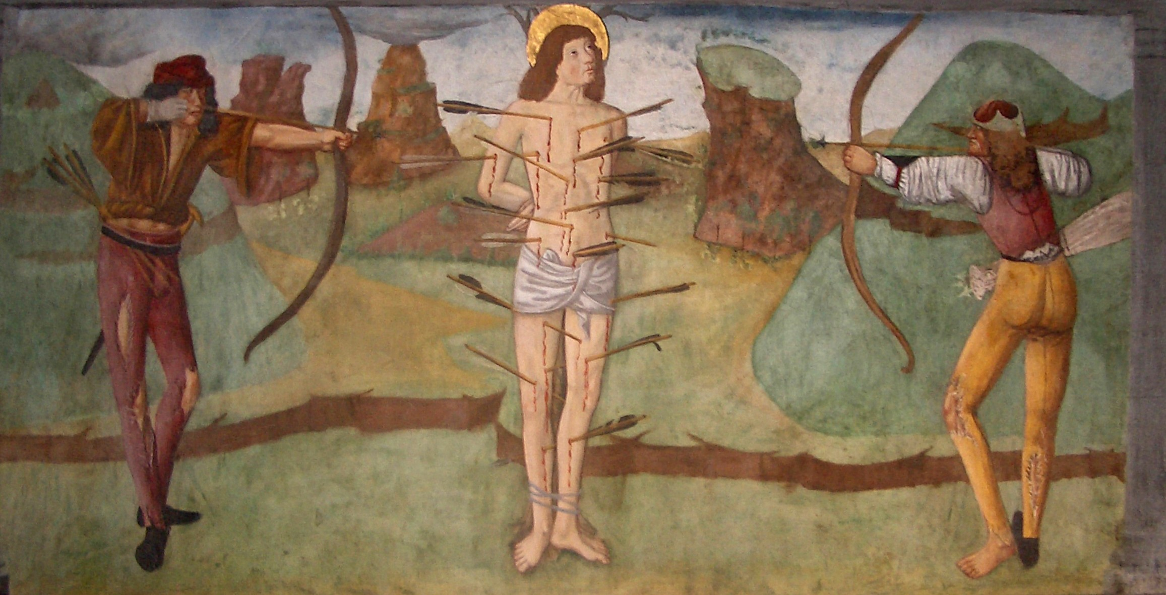 Aosta, Church of St. Orso, fresco of the chapel of San Sebastiano, end of XV century